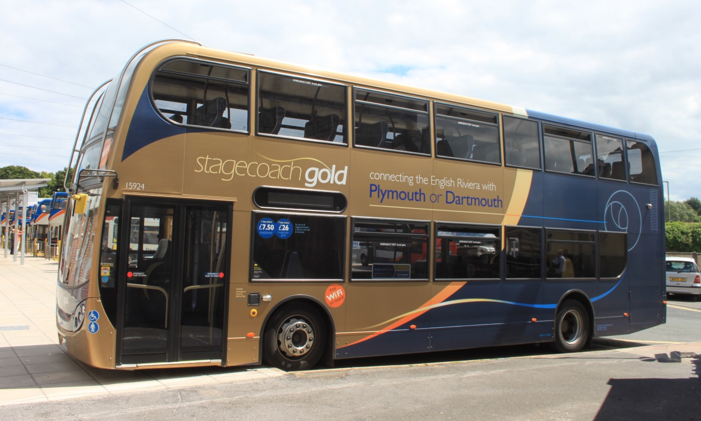 A coach-seated Enviro 400 at Paignton for the Stagecoach Gold service to Plymouth. 15924 is registered YN63BWY.